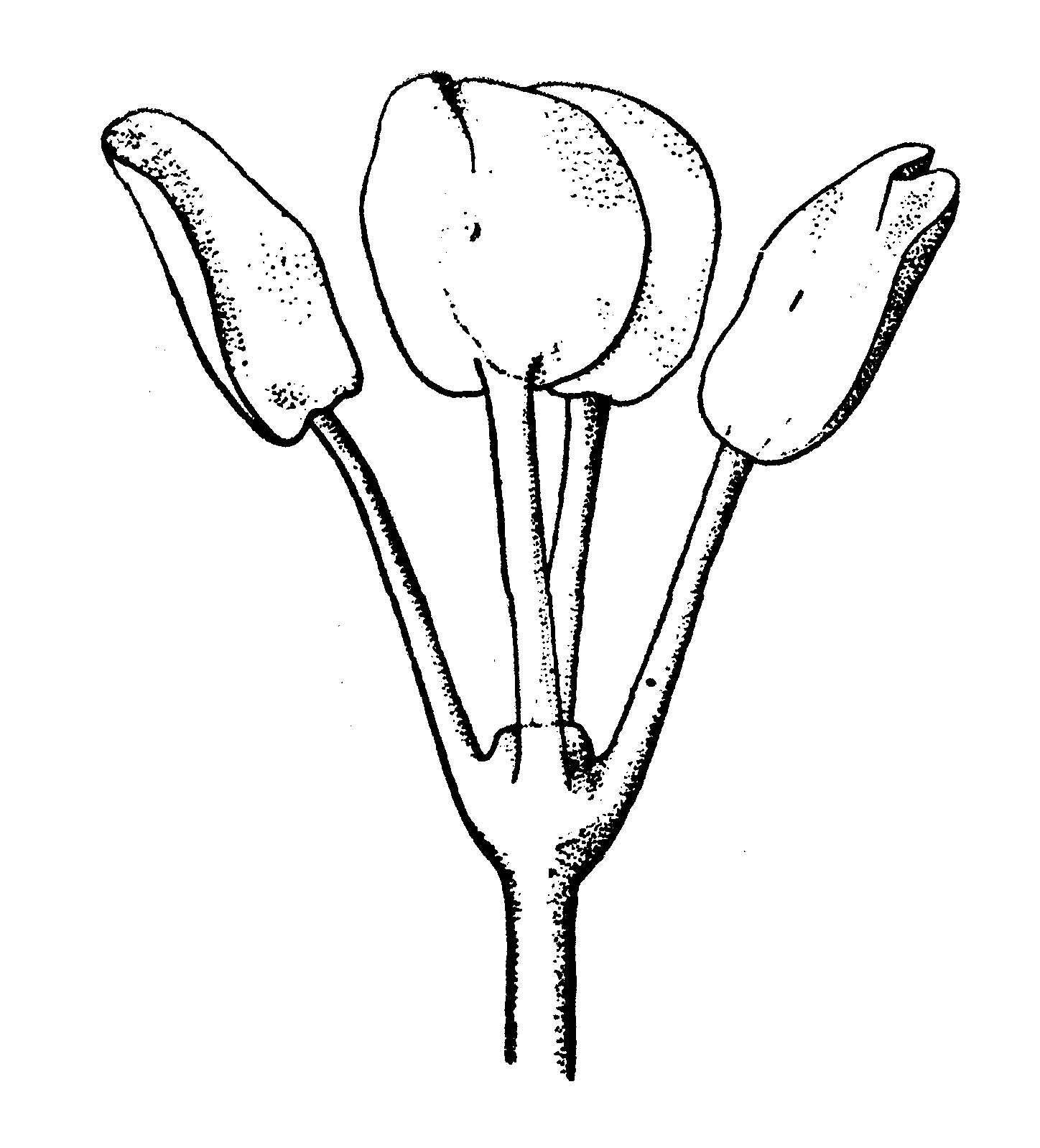 Anthobothrium cornucopia